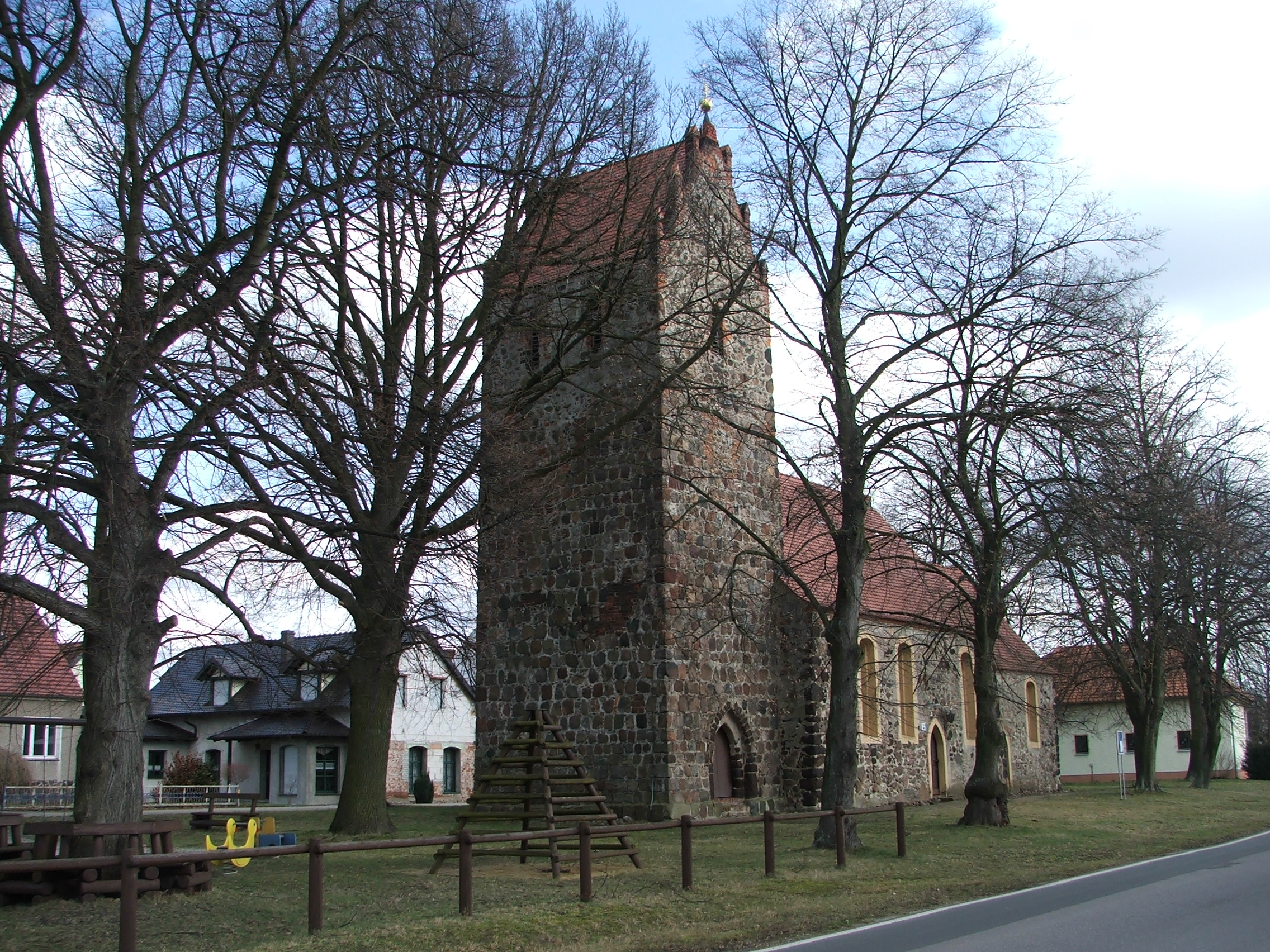 Church in Prießen